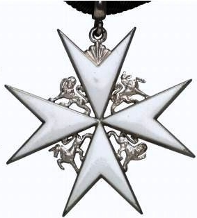 This is the badge of the Most Venerable Order of the Hospital of St John of Jerusalem. This particular example is the neck badge of a knight of grace of the Order. This example comes from my personal collection.